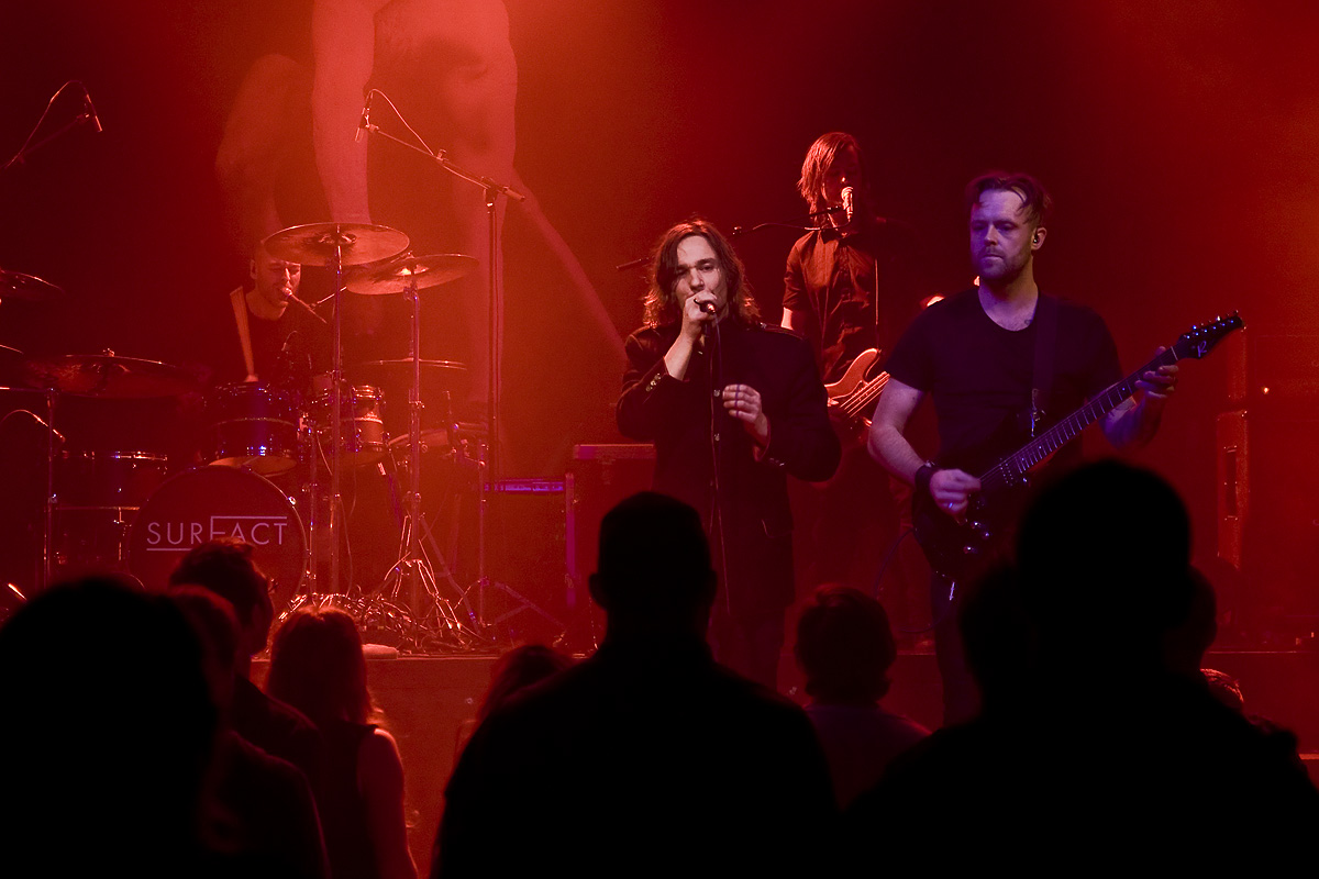 Danish rock band Surfact playing at Forbrændingen, Albertslund, Denmark